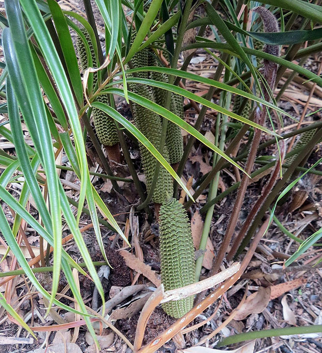 Ceratozamia kuesteriana In the 'Cycad Garden' of Lotusland — in Montecito, near Santa Barbara in southern California. A cycad rare and endangered in its native location in the mountains of northeastern Mexico. In context at